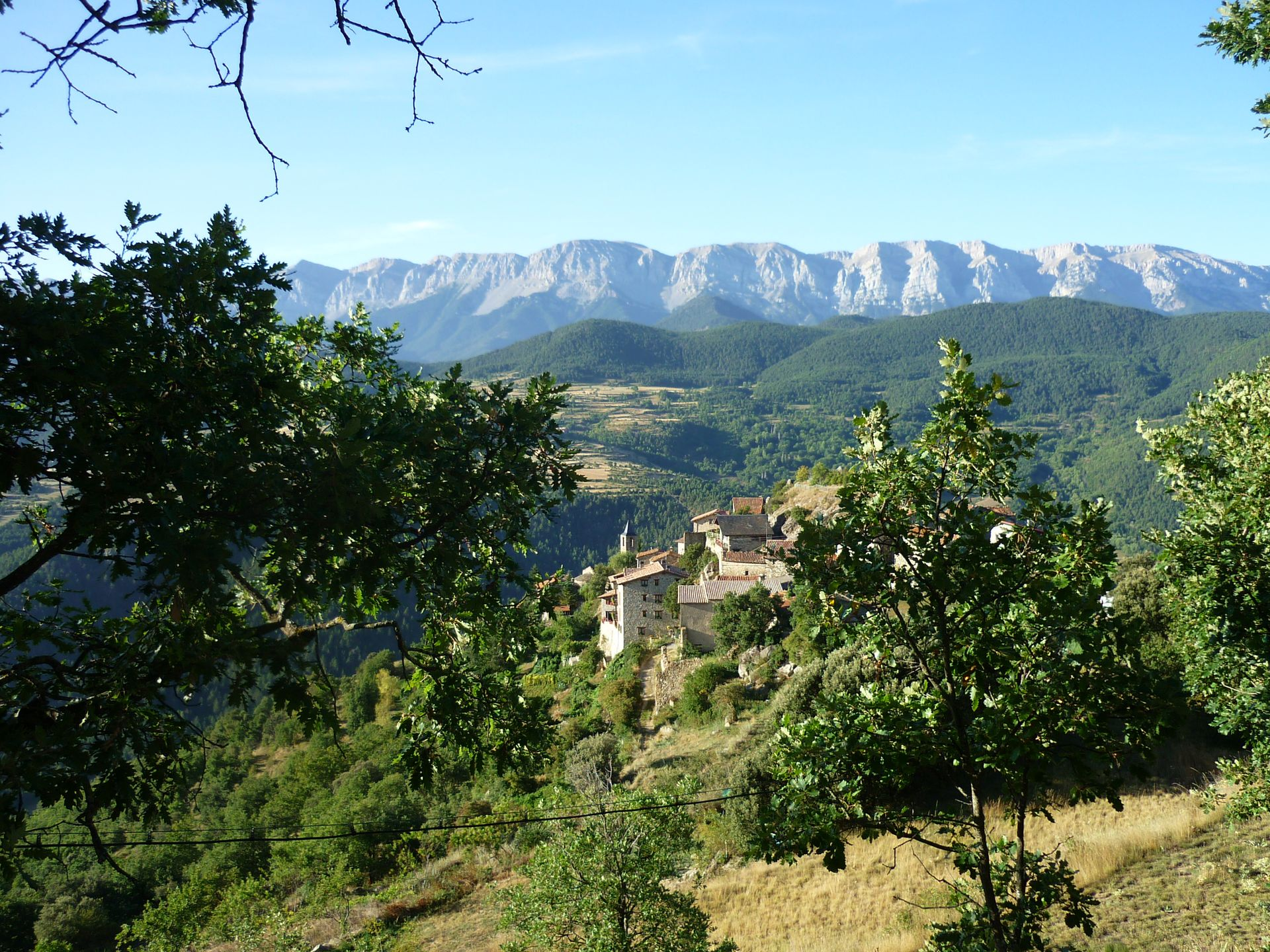 General view of Aristot (Alt Urgell - Catalonia)